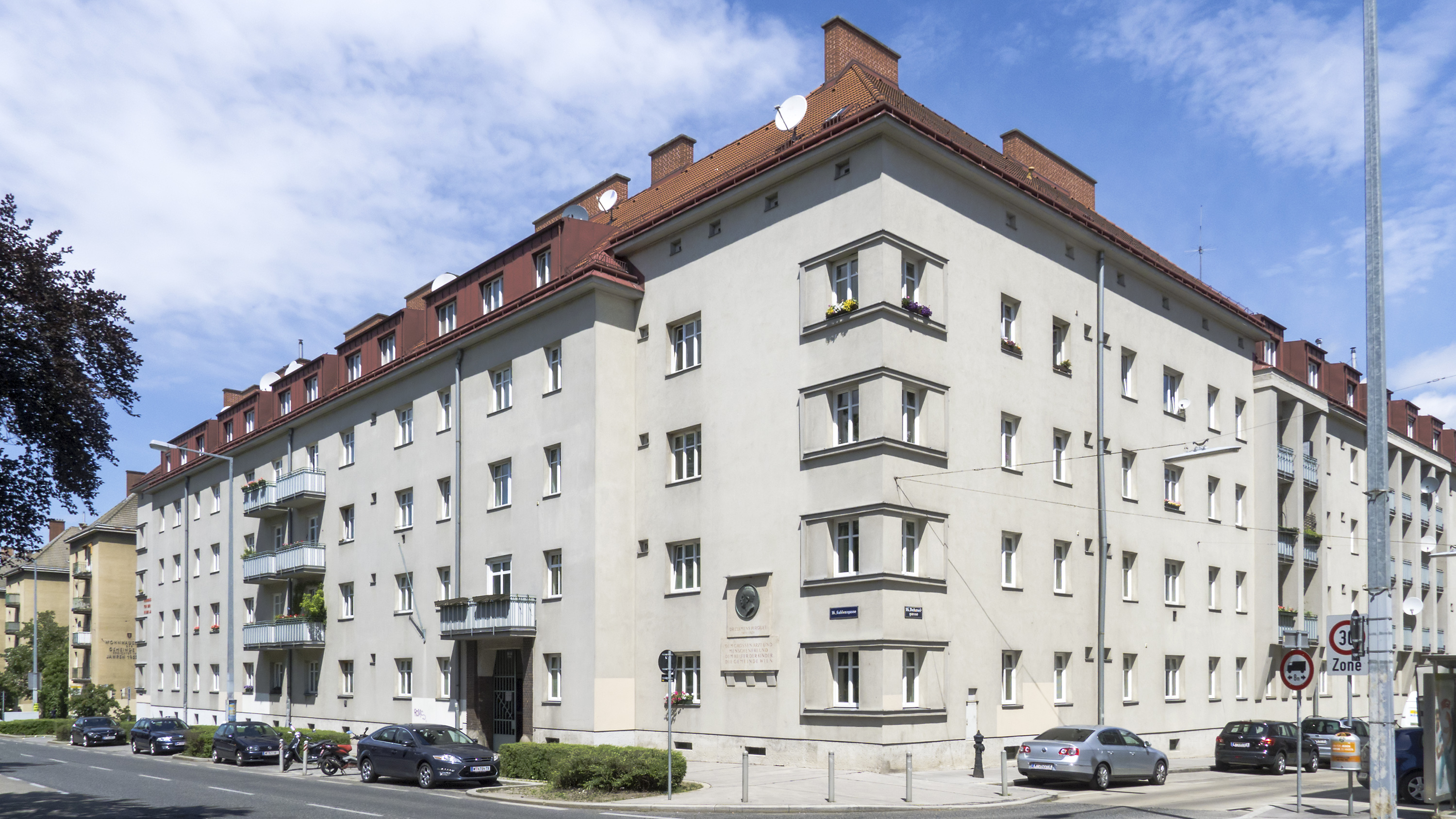 Municipality building Pirquethof in Vienna 16